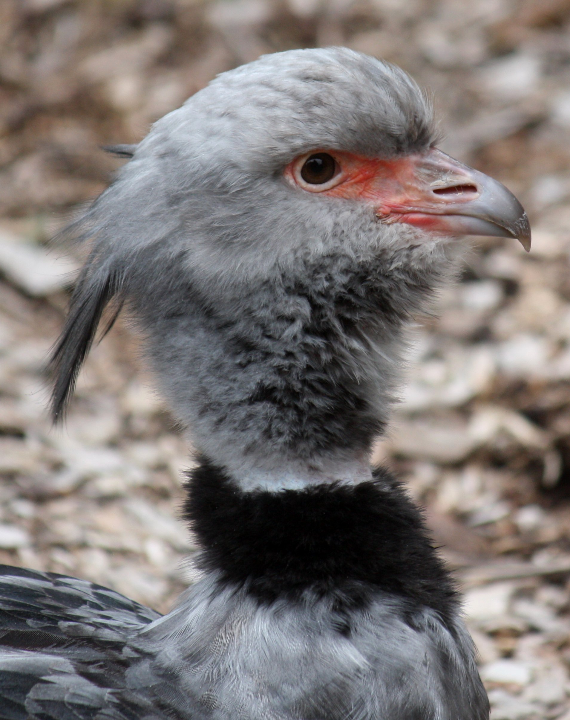 Chauna torquata at Louisville Zoo